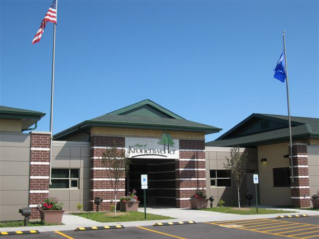 Kronenwetter Municipal Center (2007)